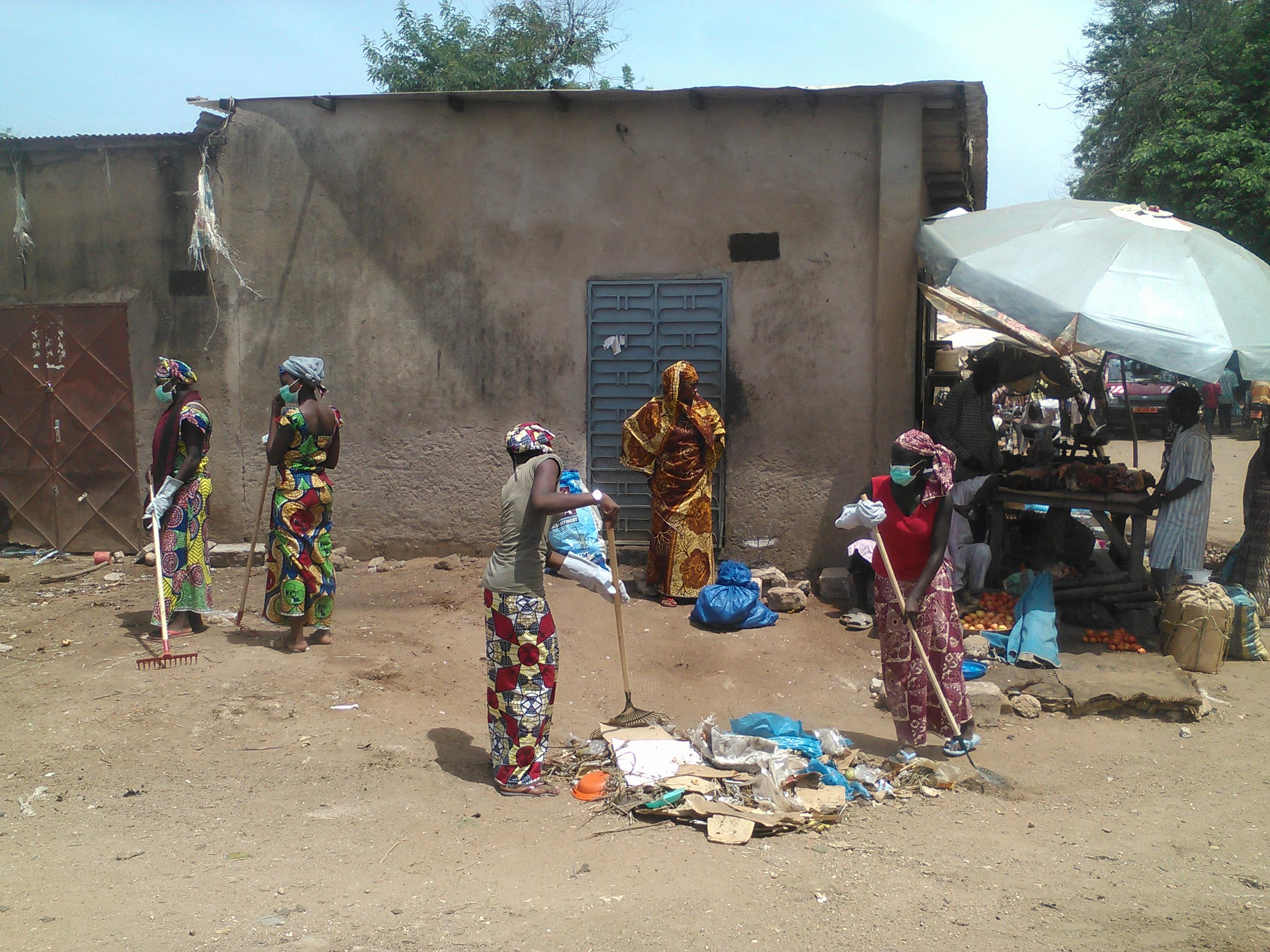 Cleaning and protecting the environment is everyone's responsibility including women.